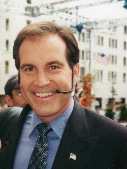 Jim Nantz, taken by me outside outdoor set of The NFL Today, 25 November 2001.